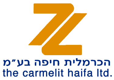 Logo of the Carmelit - an underground funicular railway in Haifa, Israel